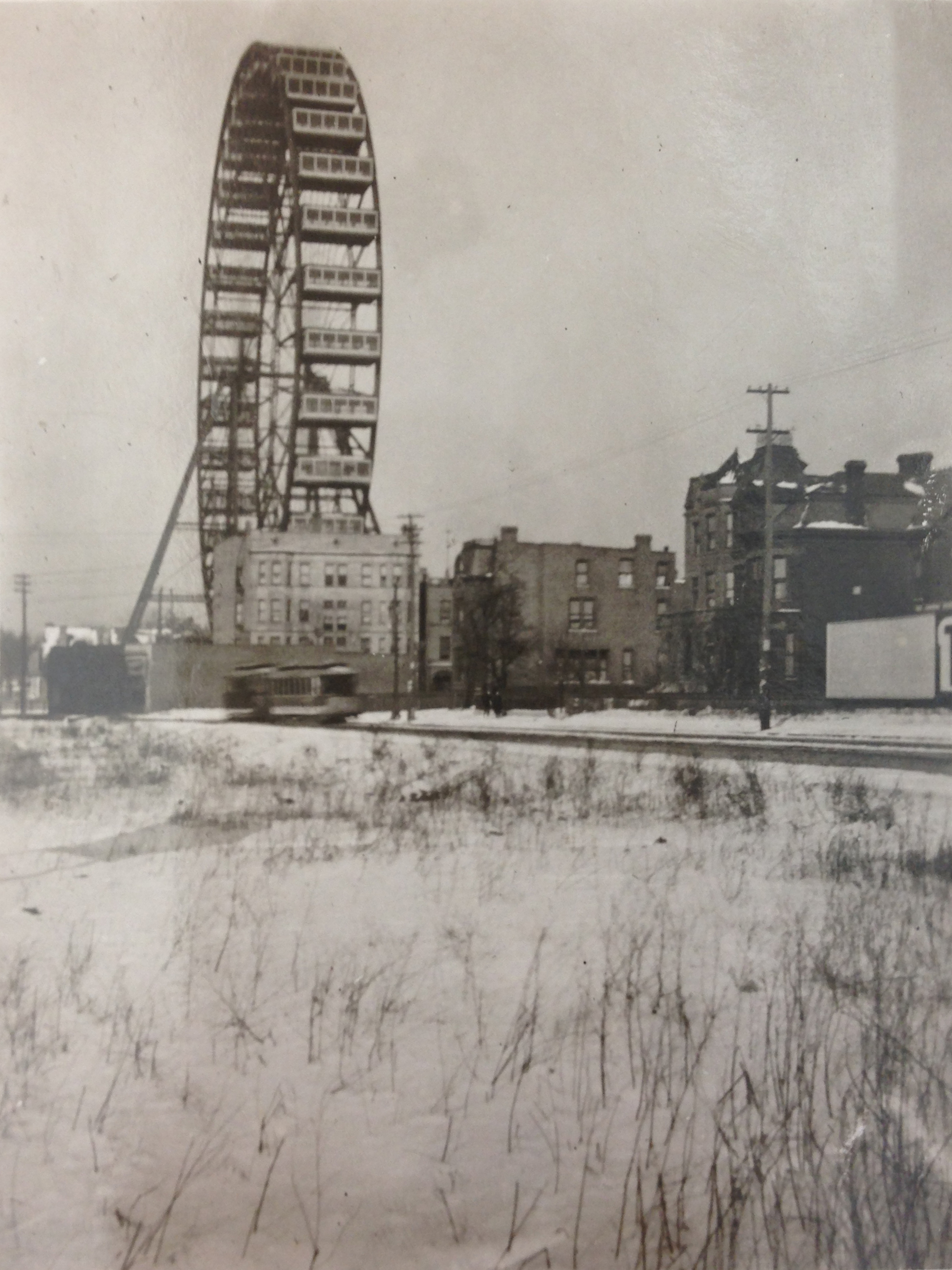 The original Ferris Wheel AFTER the 1893 Worlds Fair as it was in Lincoln Park, Chicago